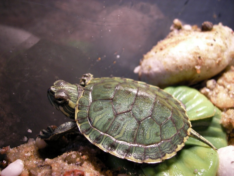 Trachemys scripta troostii